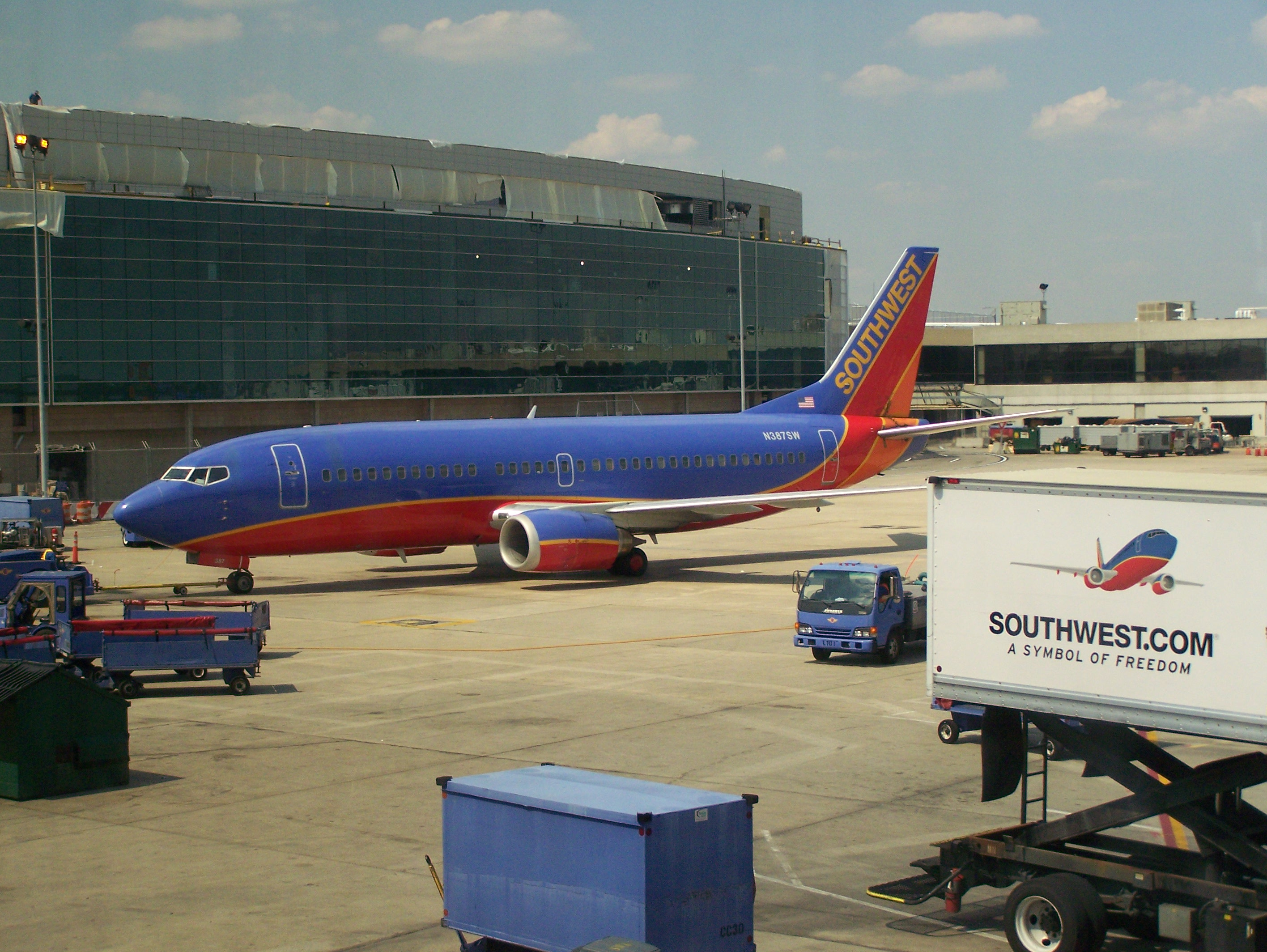 New Terminal D&E connector with a southwest airlines 737-300 (N387SW) in the foreground